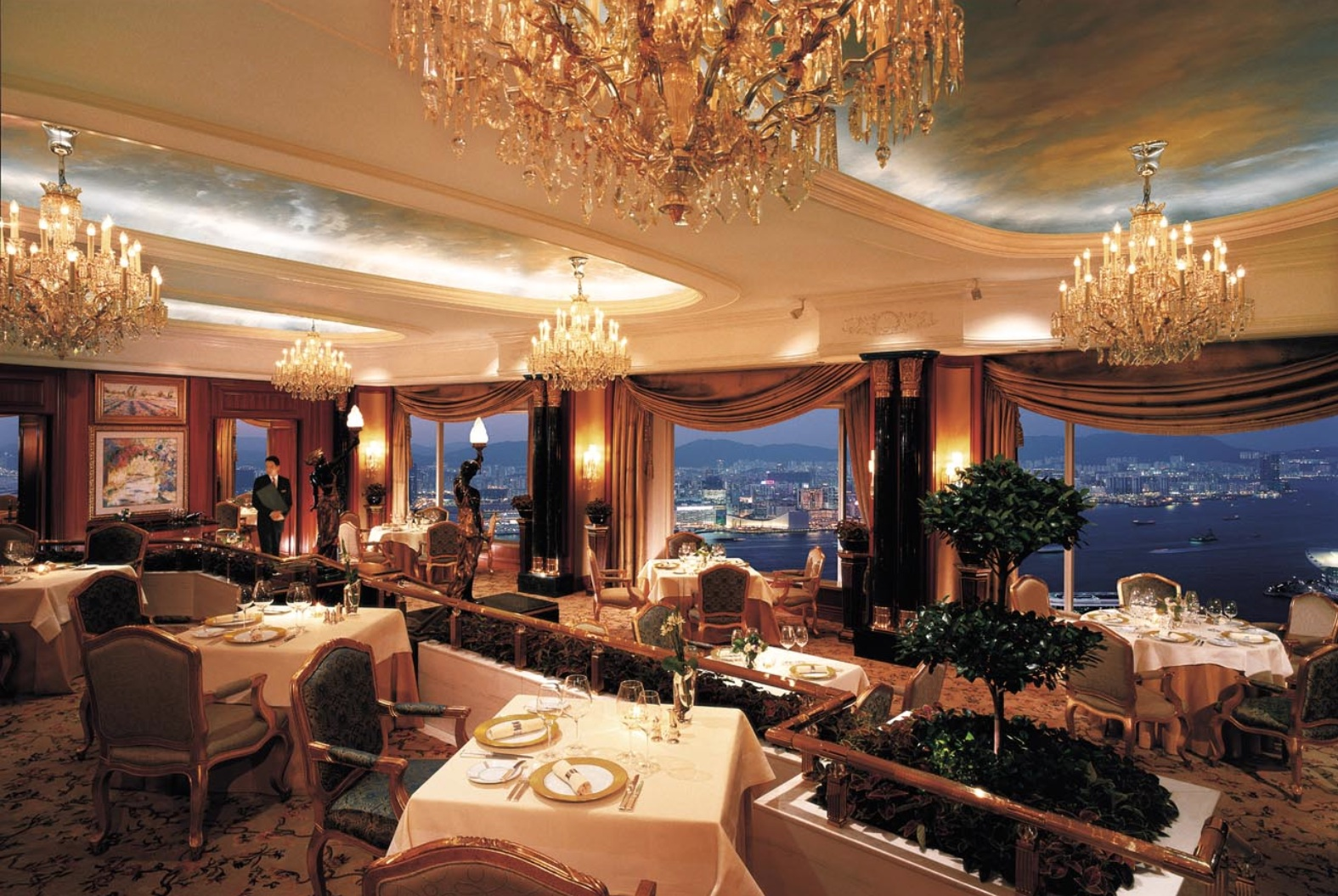 Island Shangri-La, Hong Kong - Restaurant Petrus